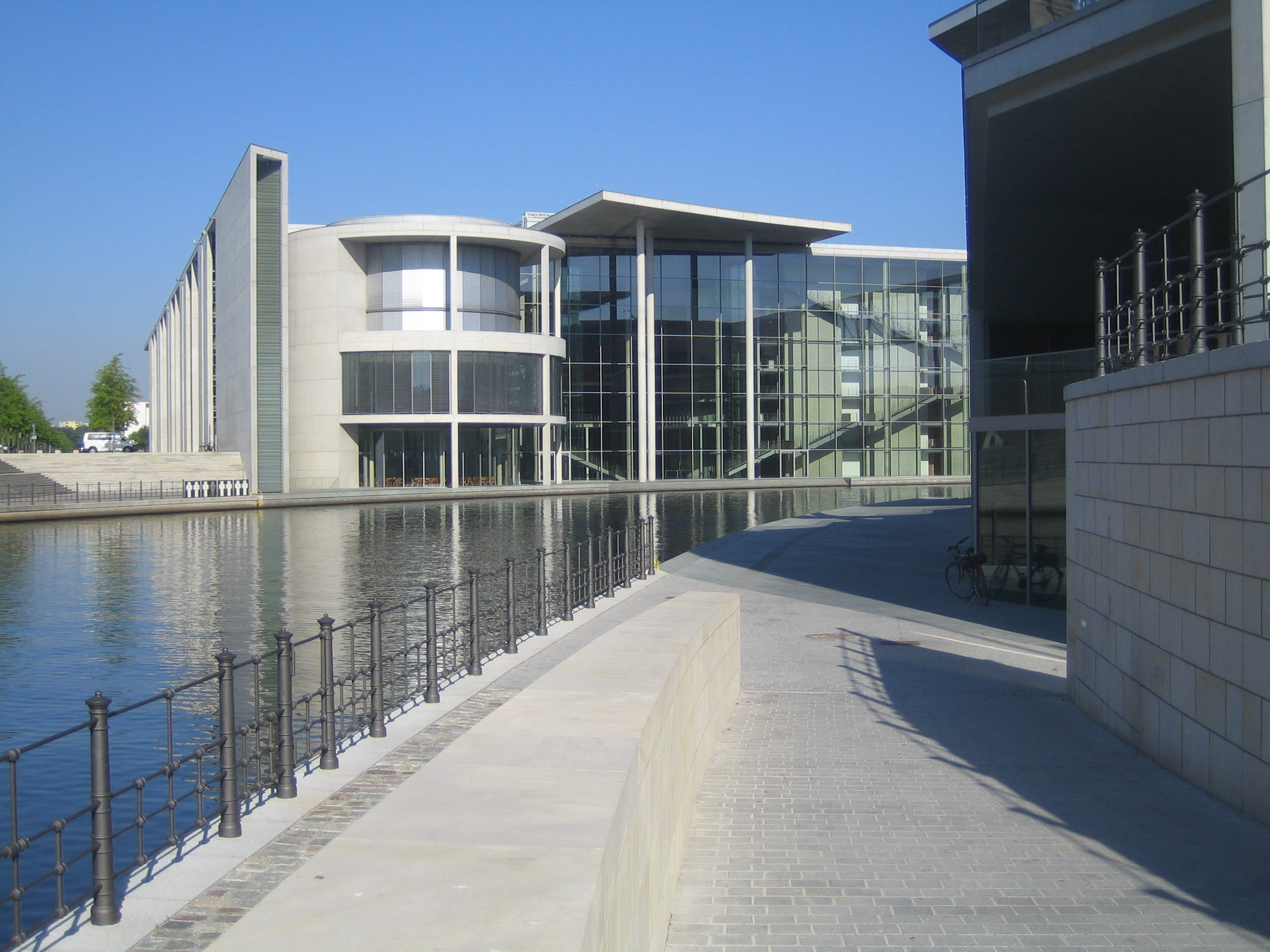 Berlin, Paul-Loebe-Haus, view from east.